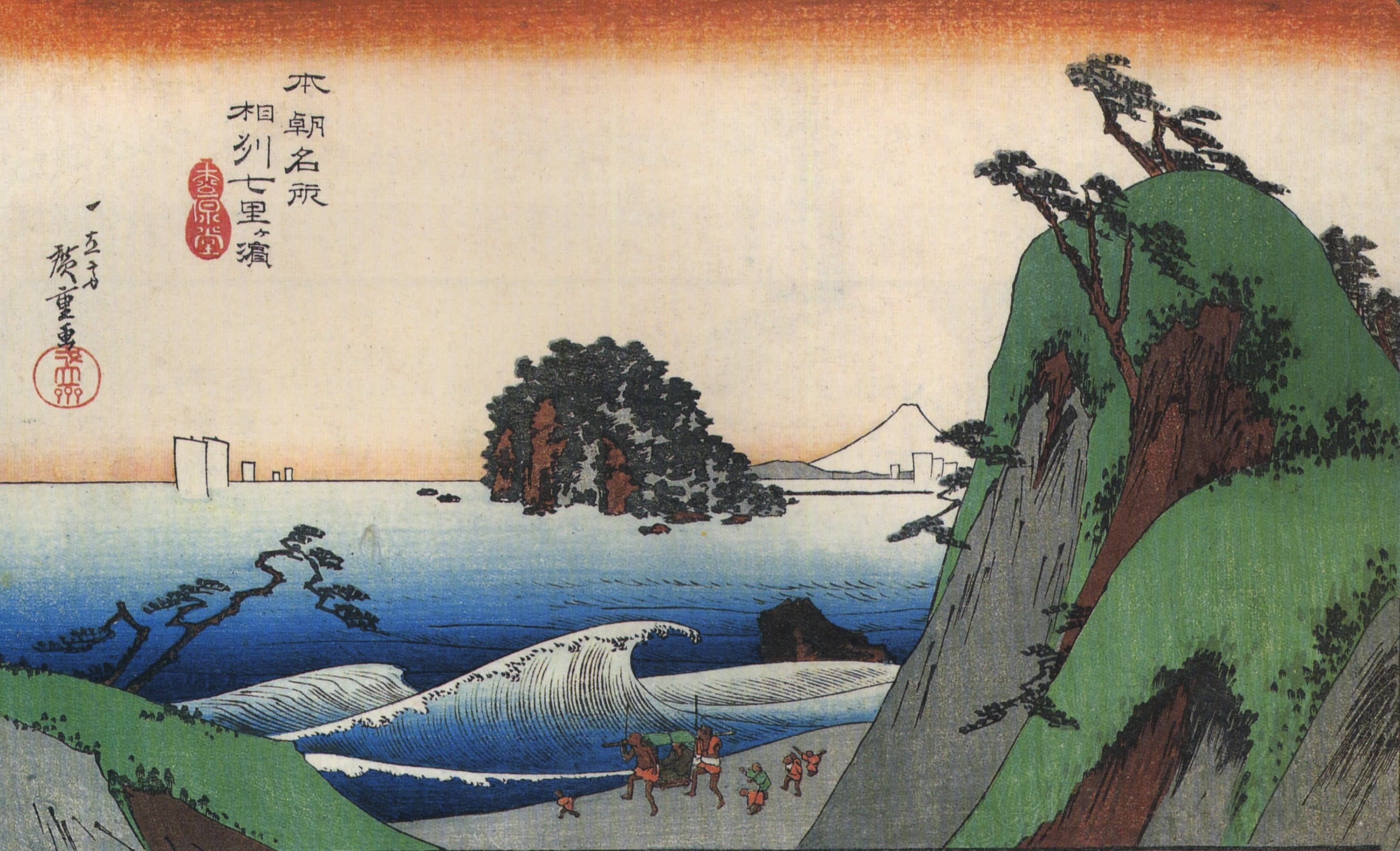 Famous Places in Japan - 6. Shichirigahama Beach